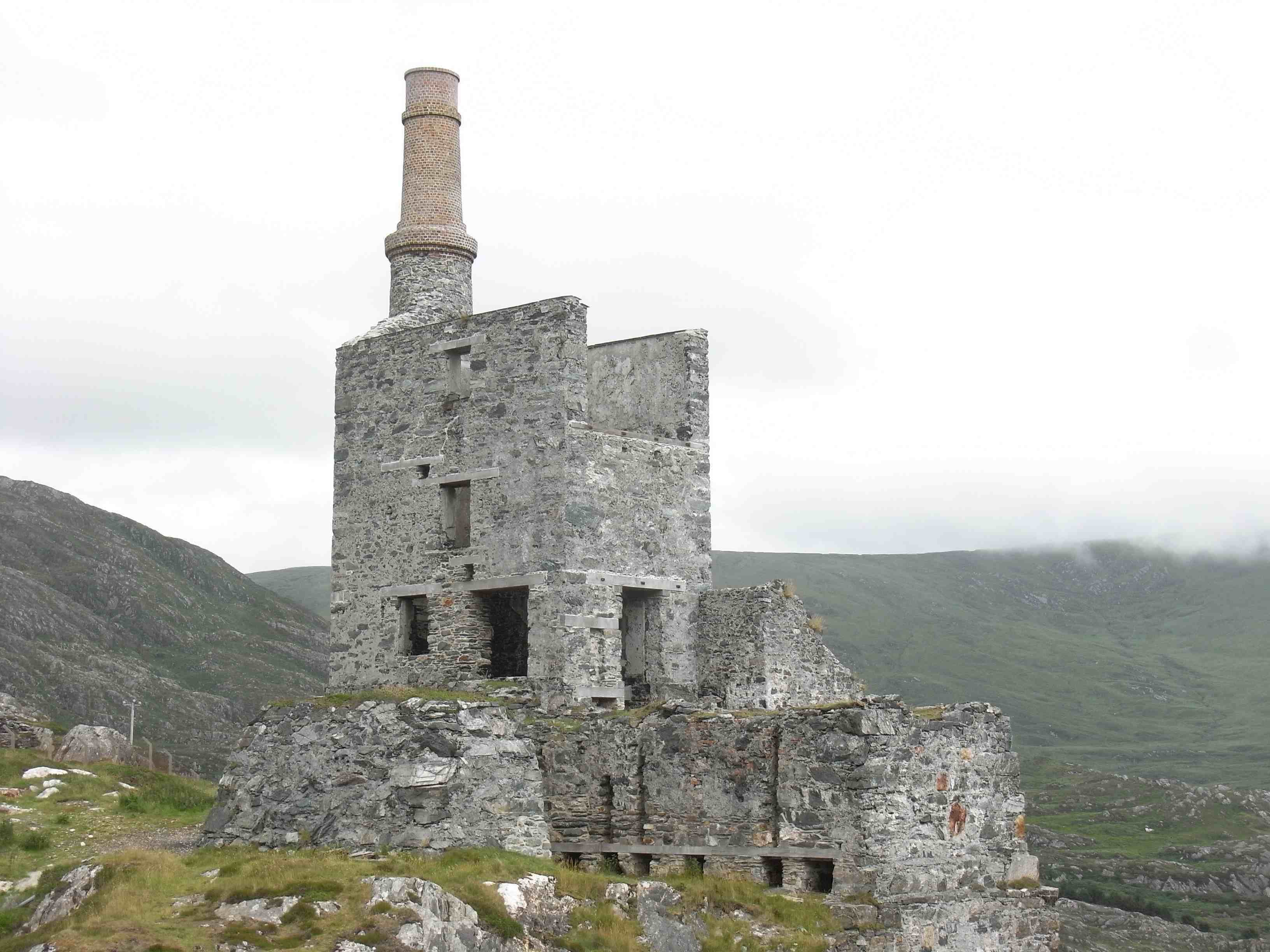 Enginehouse of the Mountain Mine, near Allihies, County Cork, 2008